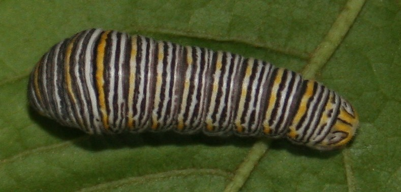 Zebra Swallowtail larva, Eurytides marcellus